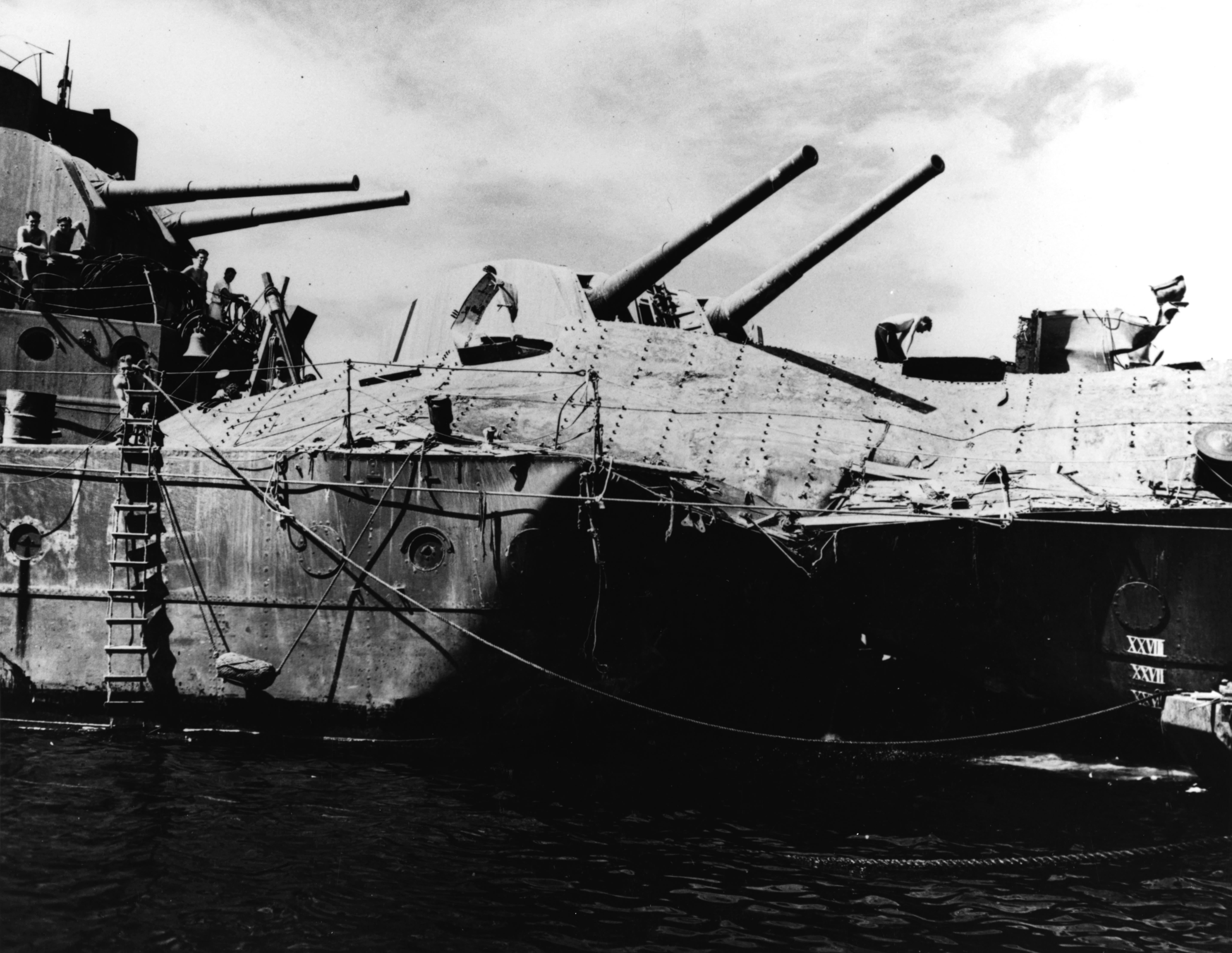 The Royal Australian Navy light cruiser HMAS Hobart (D63) at Espiritu Santo, New Hebrides, on 23 July 1943, showing the damage inflicted when she was torpedoed by a Japanese submarine while serving with Task Force 74 on 20 July. She has a huge hole and badly a distorted stern, the deck planking has been removed by the ship's crew. Both portside propellers were blown off by the impact, many pipes were broken, bulkheads crushed and power cables severed. Hobart lost 13 crew in the attack and one U.S. officer who was on board; seven others were seriously injured.